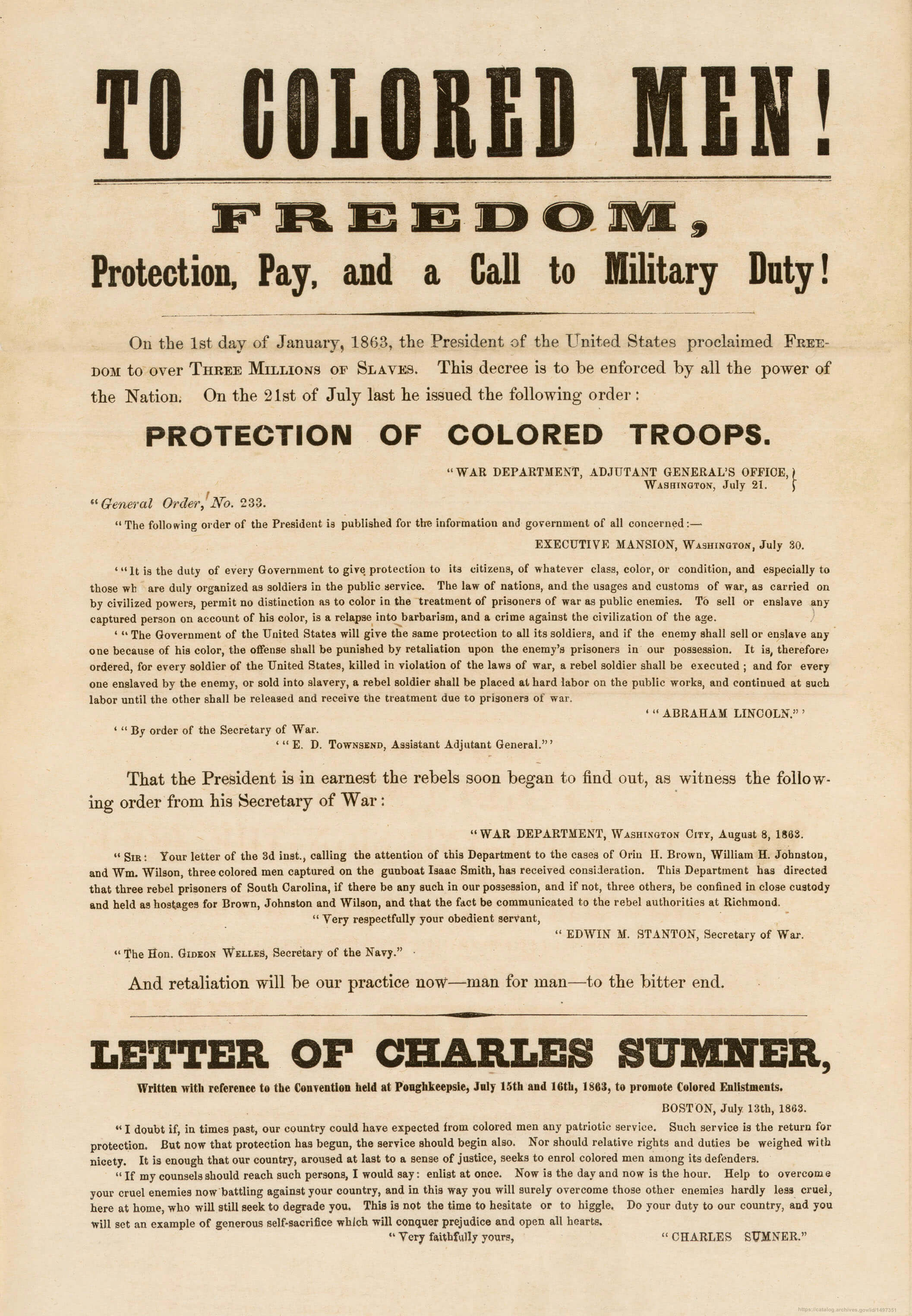 Recruitment poster for recently freed slaves to fight for the Union Army in the U.S. Civil War U.S. National Archives source states: "This poster was used to recruit recently freed slaves to fight in the Civil War for the Union Army. The men were recruited for military duty with the promise of freedom, protection and pay." Rediscovery #: 07231 Job A1 09-069 Civil War